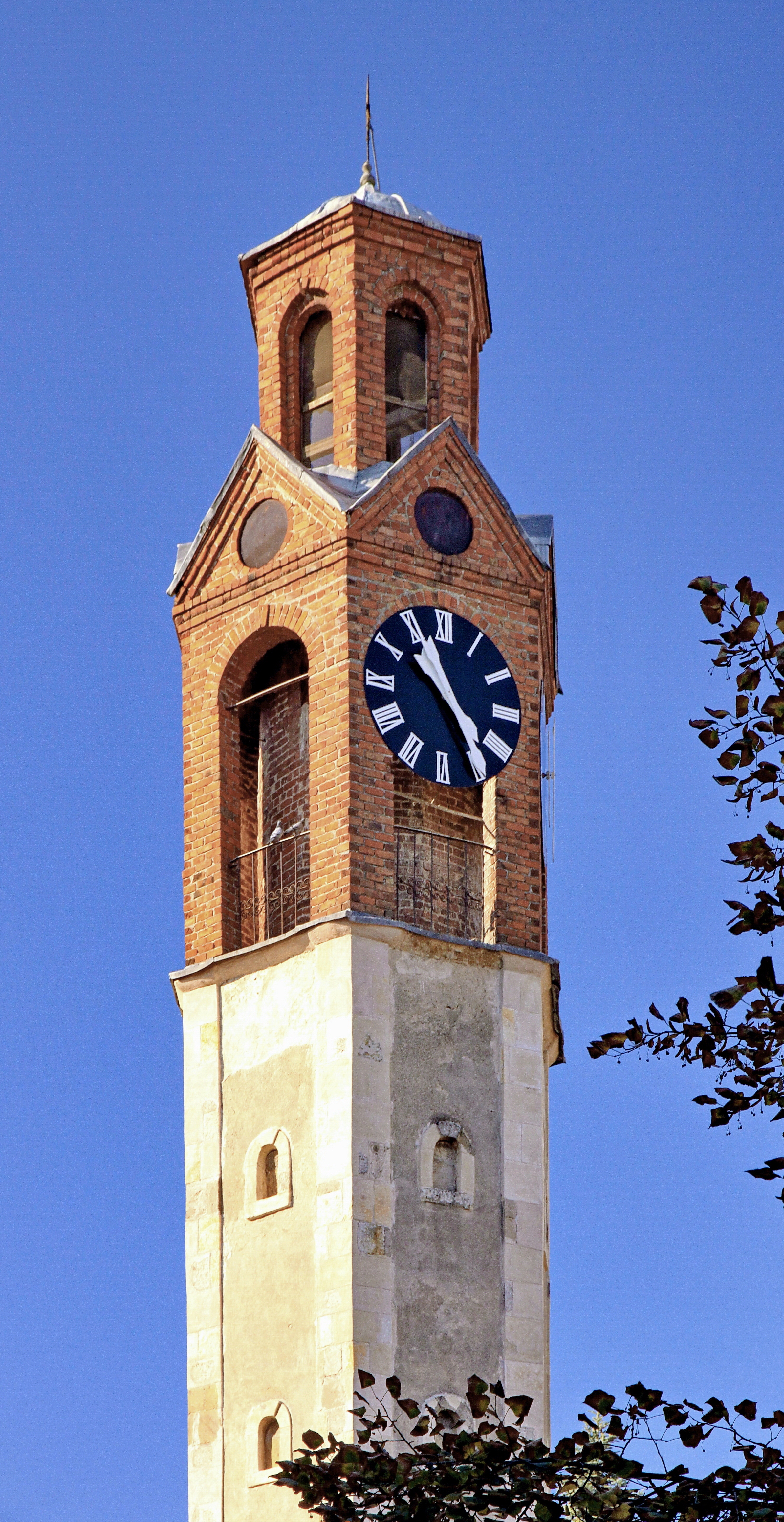 Clock Tower. Pristina, Kosovo